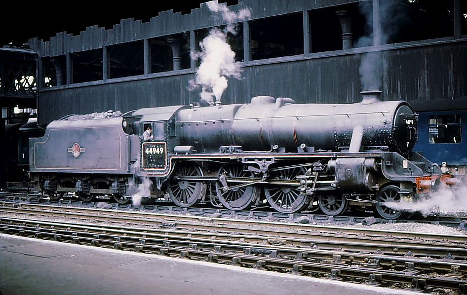 Former LMS Class 5 44949 at Manchester Victoria station.